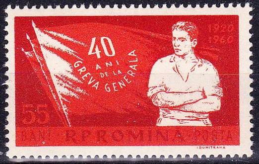 Romanian stamp commemorating 40 years since the general strike of 1920.